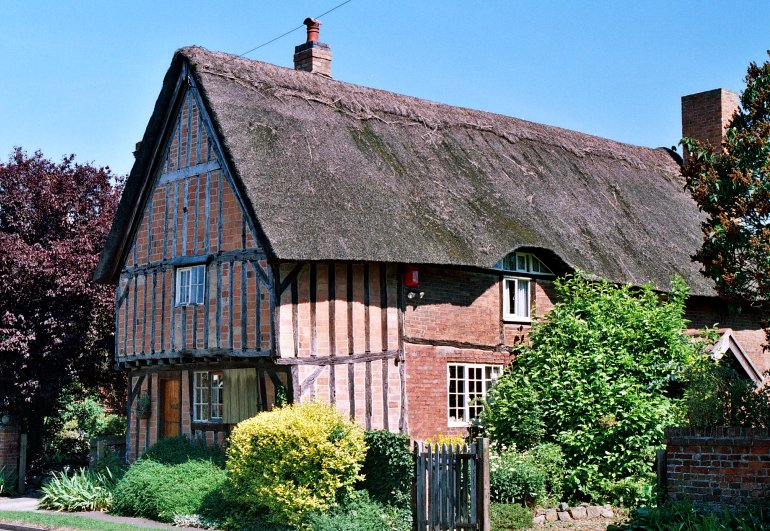 The Old Post Office, a house in Normanton on Soar.